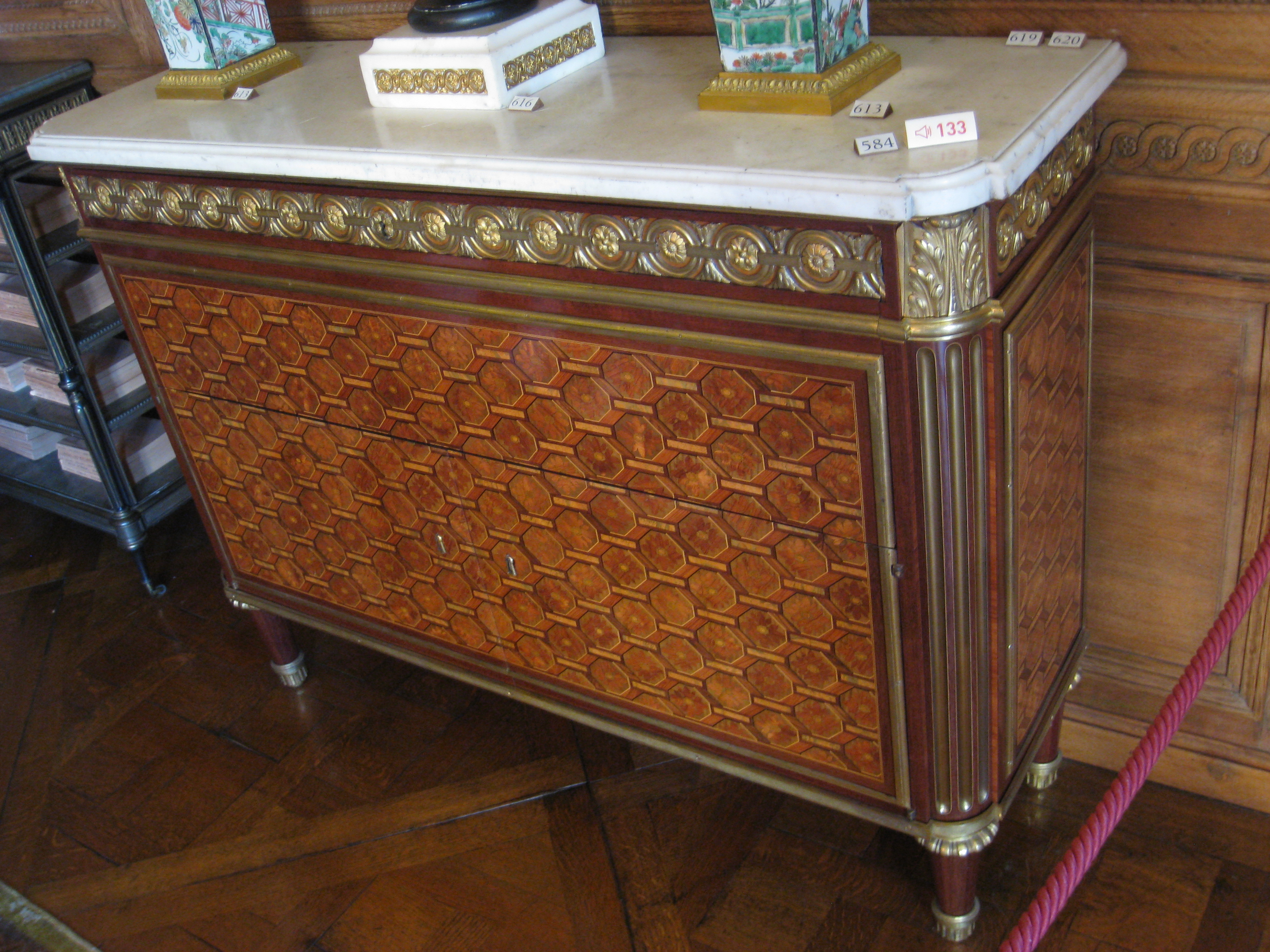 Musée Nissim de Camondo, Paris, France - Secrétaire à abattant by Jean-François Leleu (circa 1770-1780). The original work is old enough so that copyright (if any) has long since expired. The museum imposed no restrictions on photography (except prohibiting flash) in writing and when I explicitly asked; thus the original image appears free of copyright restrictions.